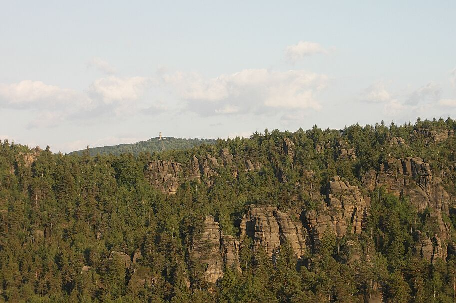 View from Nonnenfelsen Rocks, Zittau Mountains, Saxony, Germany